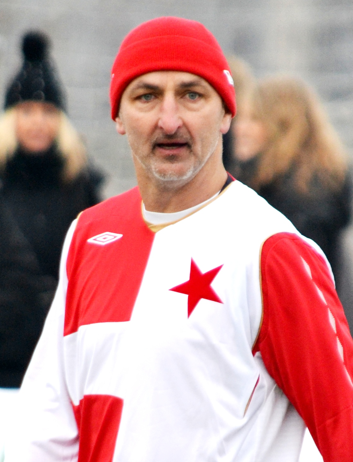 Pavel Medynský, Czech footballer